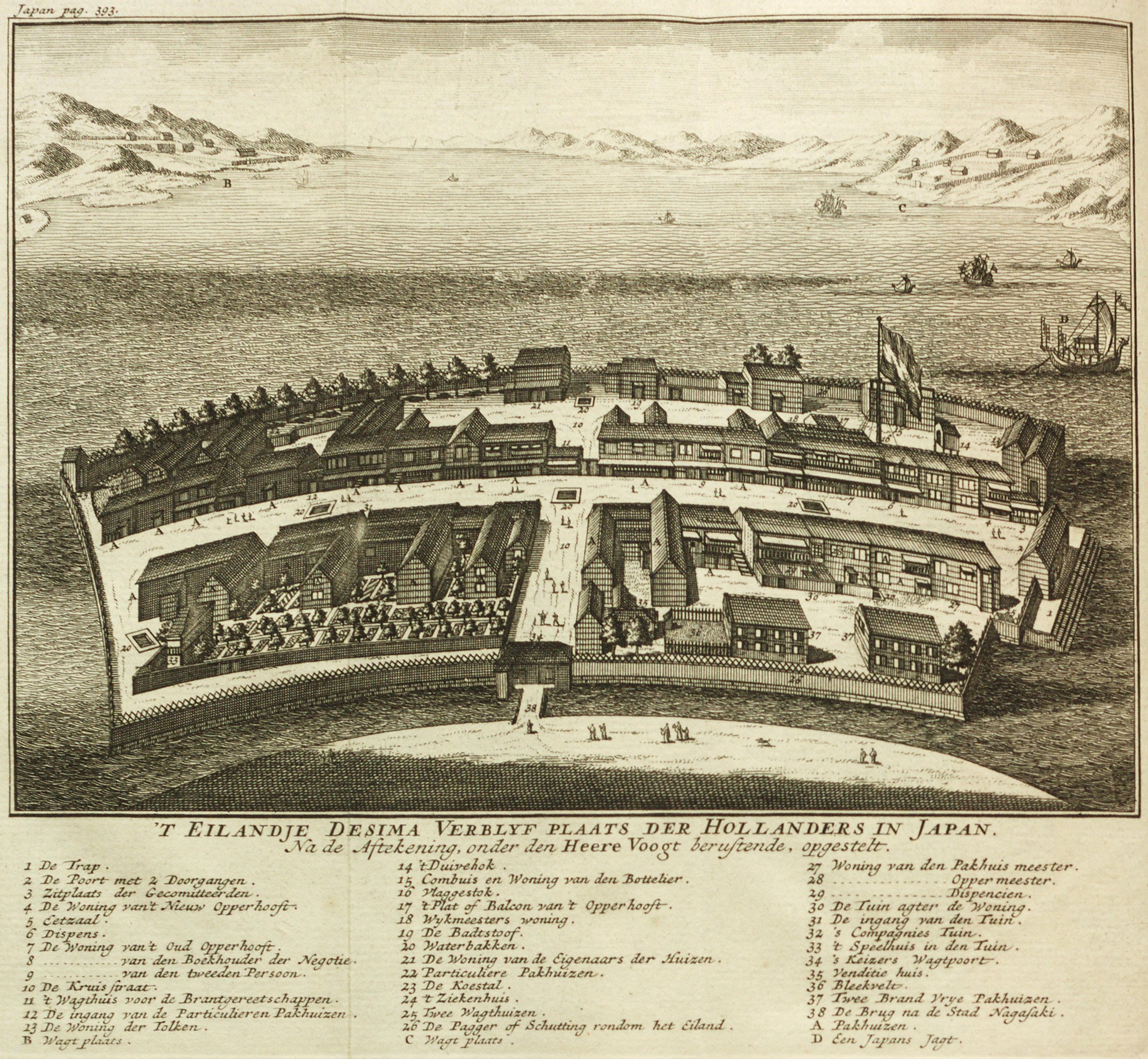 Illustration of Dutch translation of part 1 of Thomas Salmon (1725): Modern history: or, The present state of all nations. Dejima.